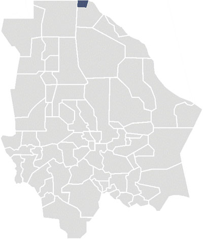 Map of the Second Federal Electoral District of the State of Chihuahua, México.